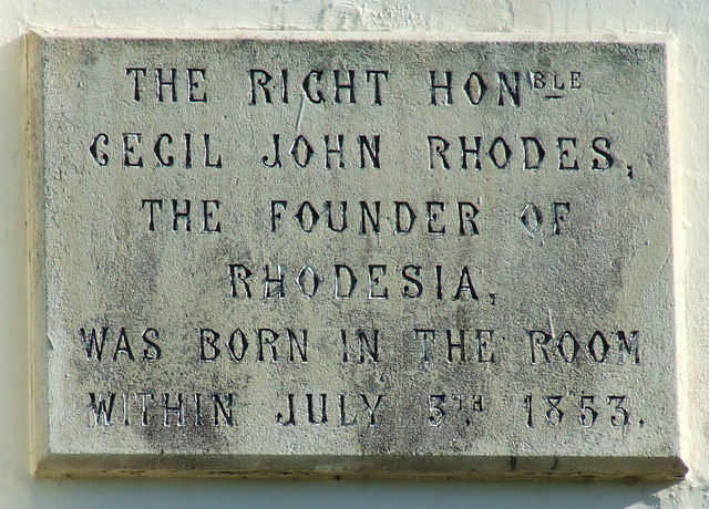 Cecil Rhodes Plaque. On the side of 592543.